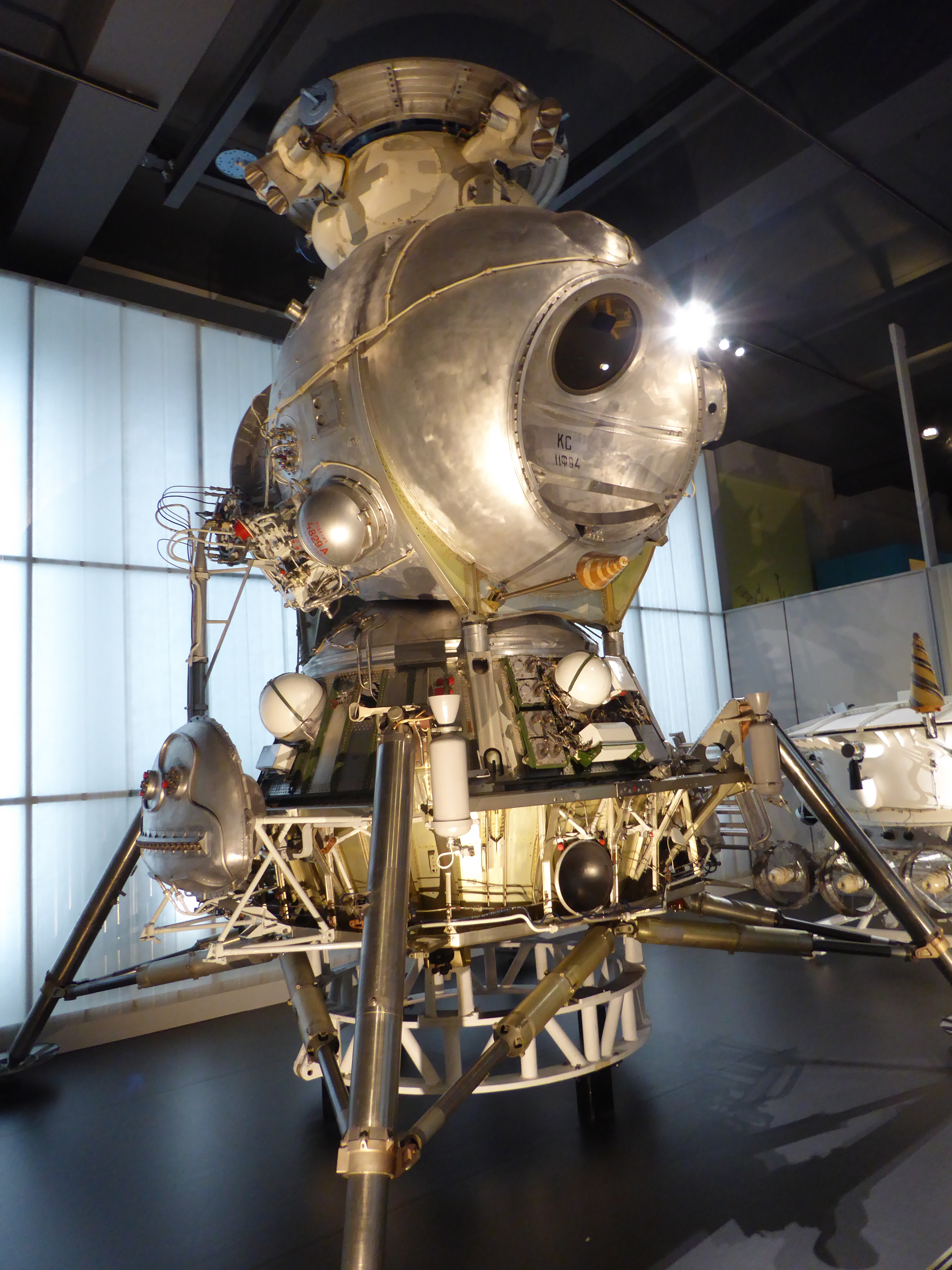 Cosmonauts Exhibition, Science Museum, London, February 2016